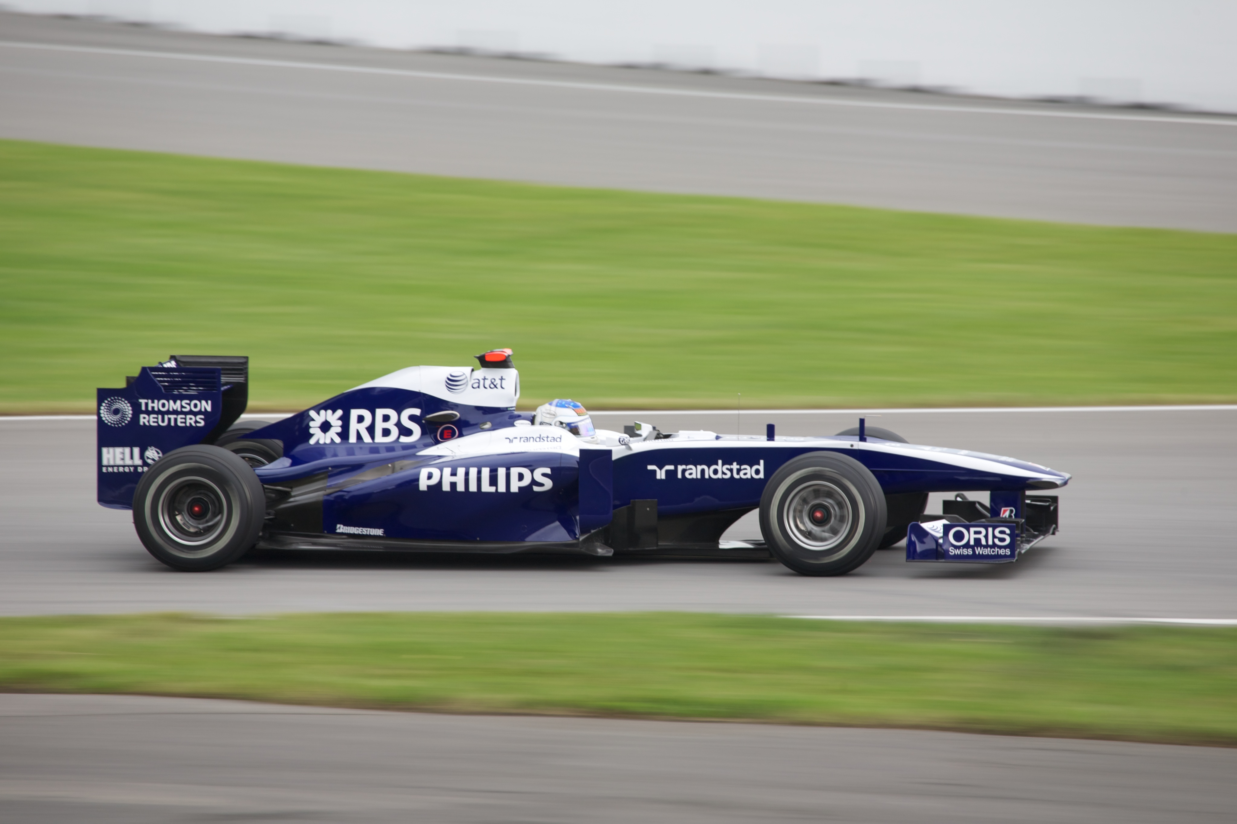 A panning motion shot of Rubens Barrichello.